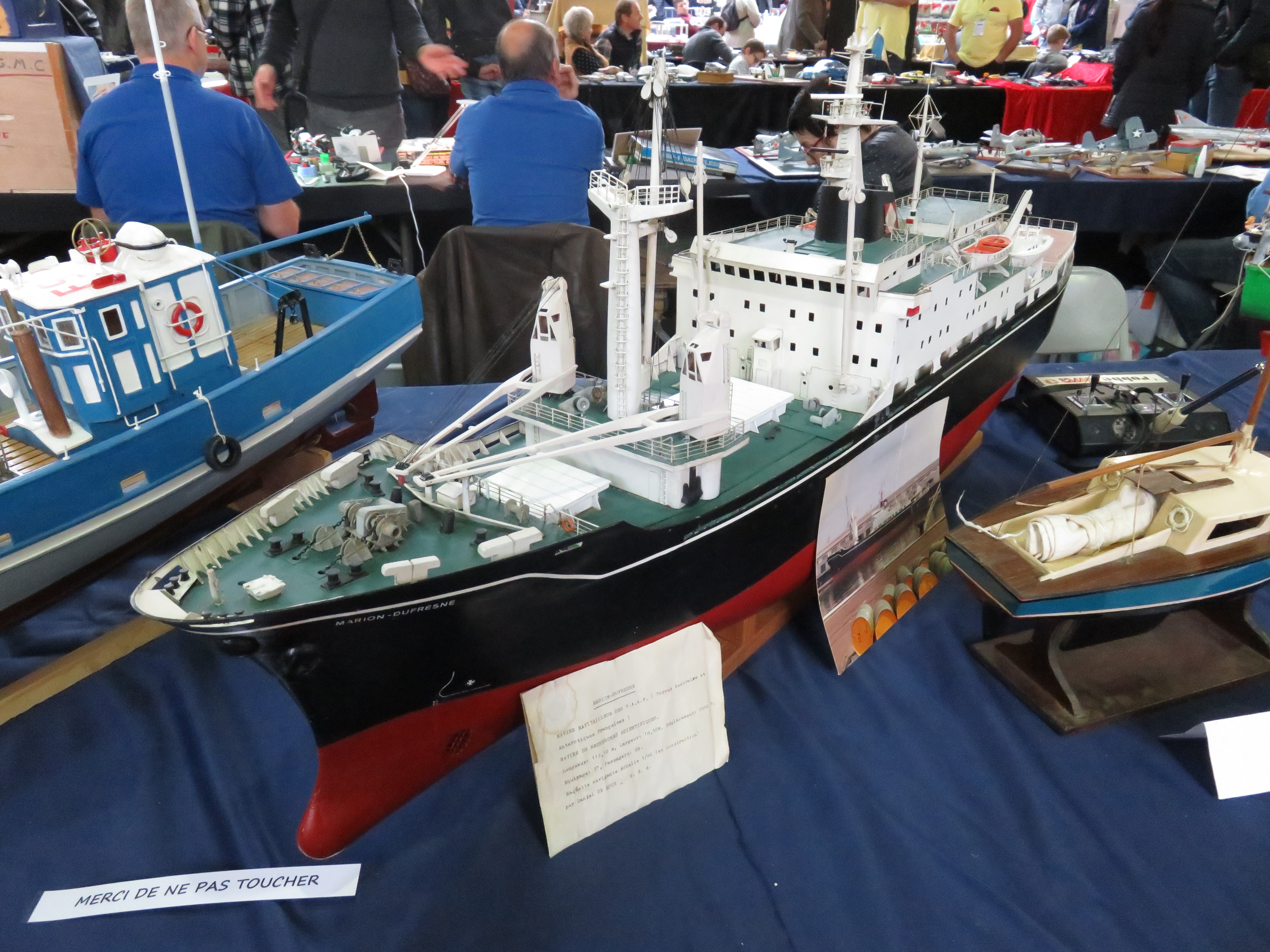 A model of the Marion Dufresne during an exhibition (Chambéry, France) on November 5, 2017.